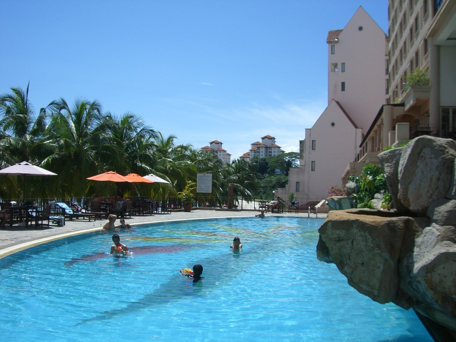 View of the pool at a Corus Hotel in Malaysia.